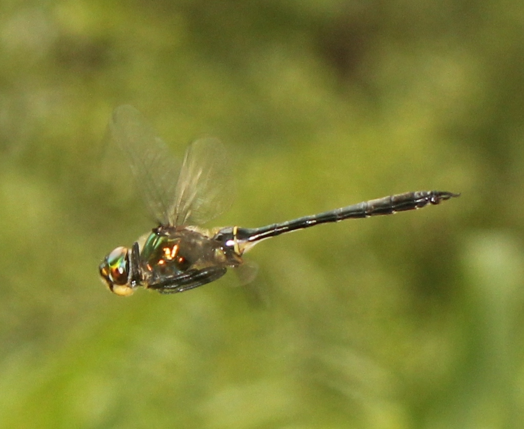 Somatochlora viridiaenea, male in flight, in Fukui pref., Japan.